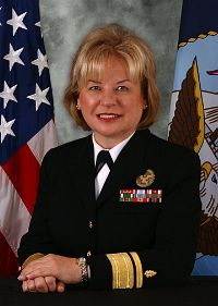 Depicted person: Nancy J. Lescavage – United States admiral